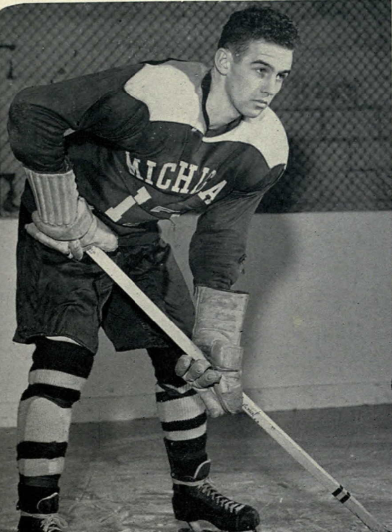 Photograph of Michigan Wolverines men's ice hockey player Wally Grant